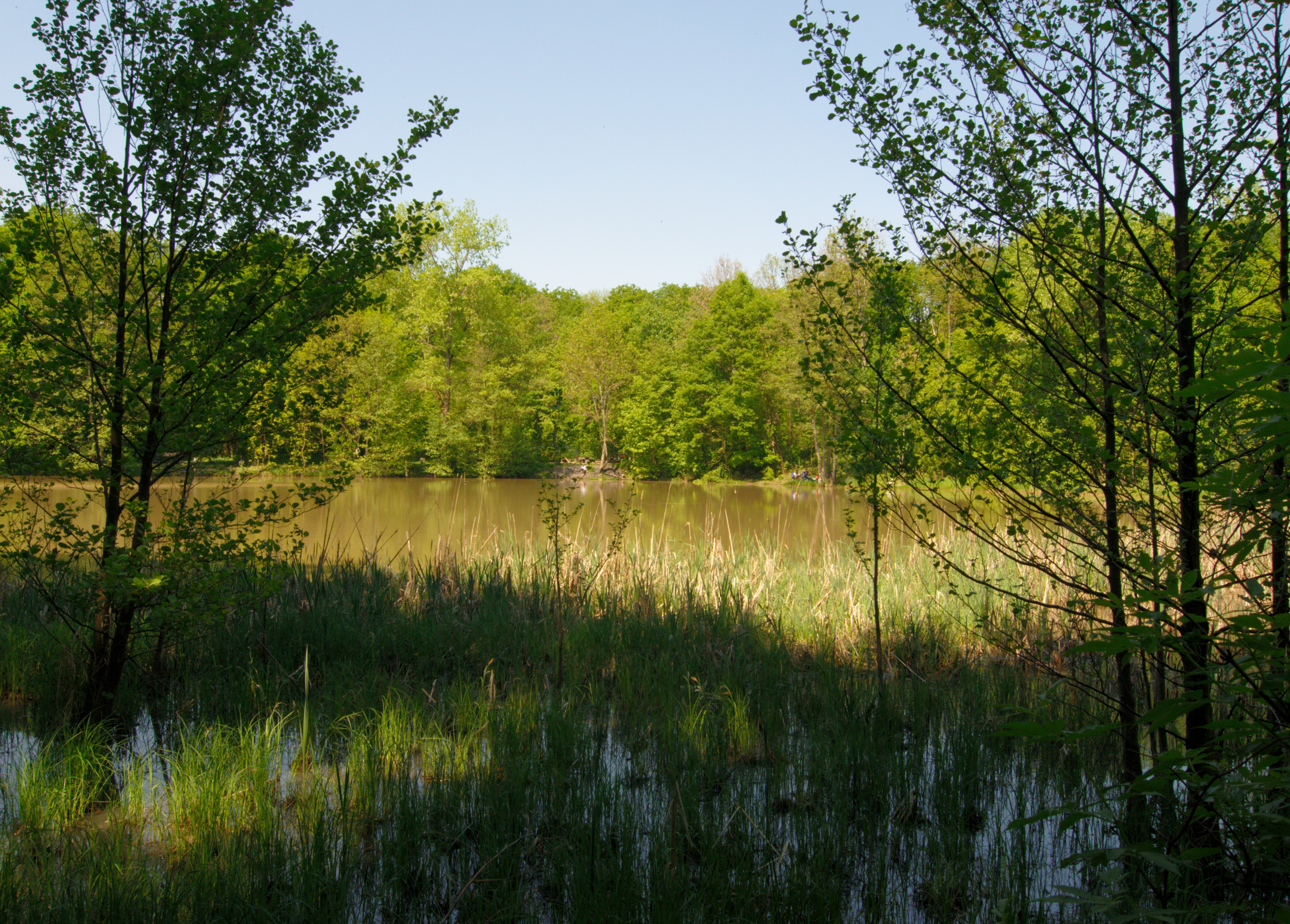 The Annasee near Beilstein, seen from the East shore